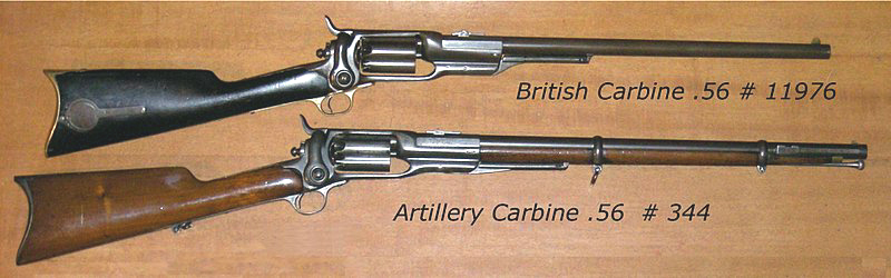 Colt M55 Longguns